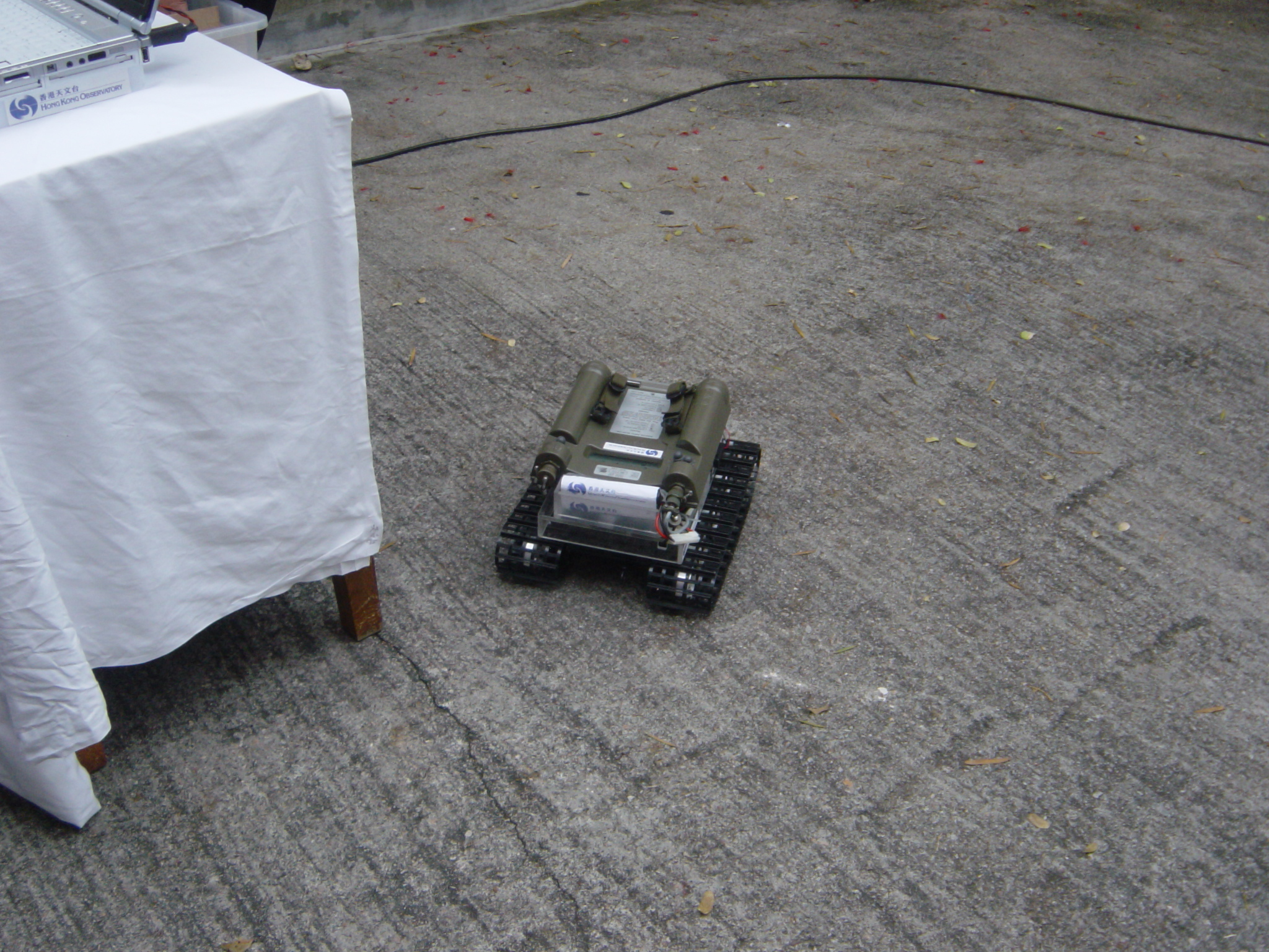 Open Day 2007 of The Hong Kong Observatory Headquarters. Remote-control Mini-vehicle Radiological Survey.